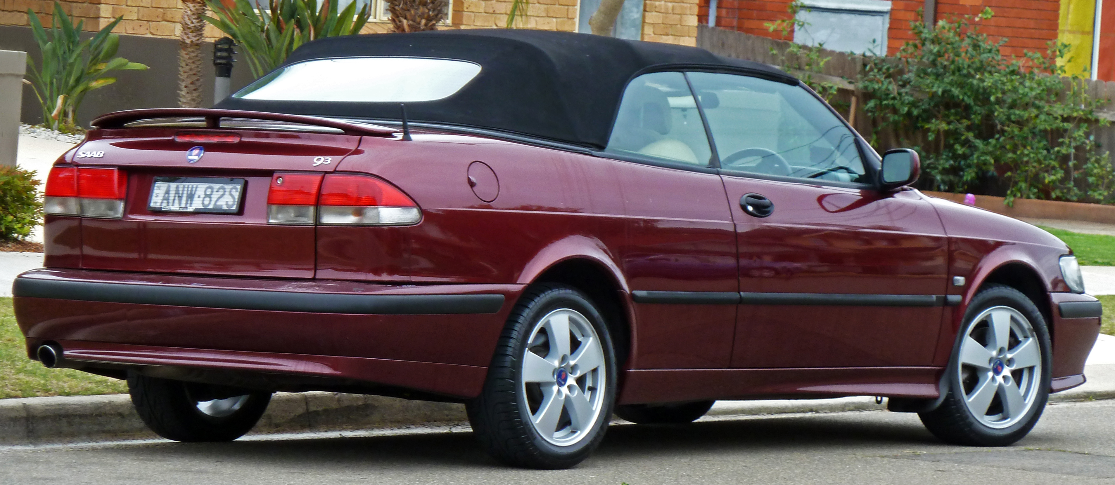 2001–2002 Saab 9-3 (MY02) Anniversary convertible. Photographed in Sans Souci, New South Wales, Australia.